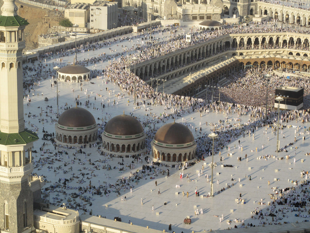 The Haram Sharif